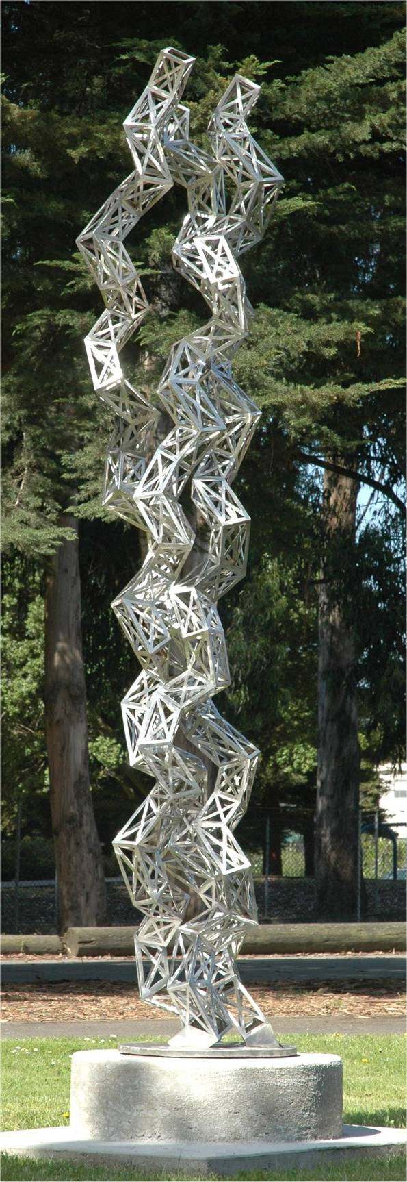 Julian Voss-Andreae Unraveling Collagen, 2005 Stainless steel, height 135" (3.40 m)